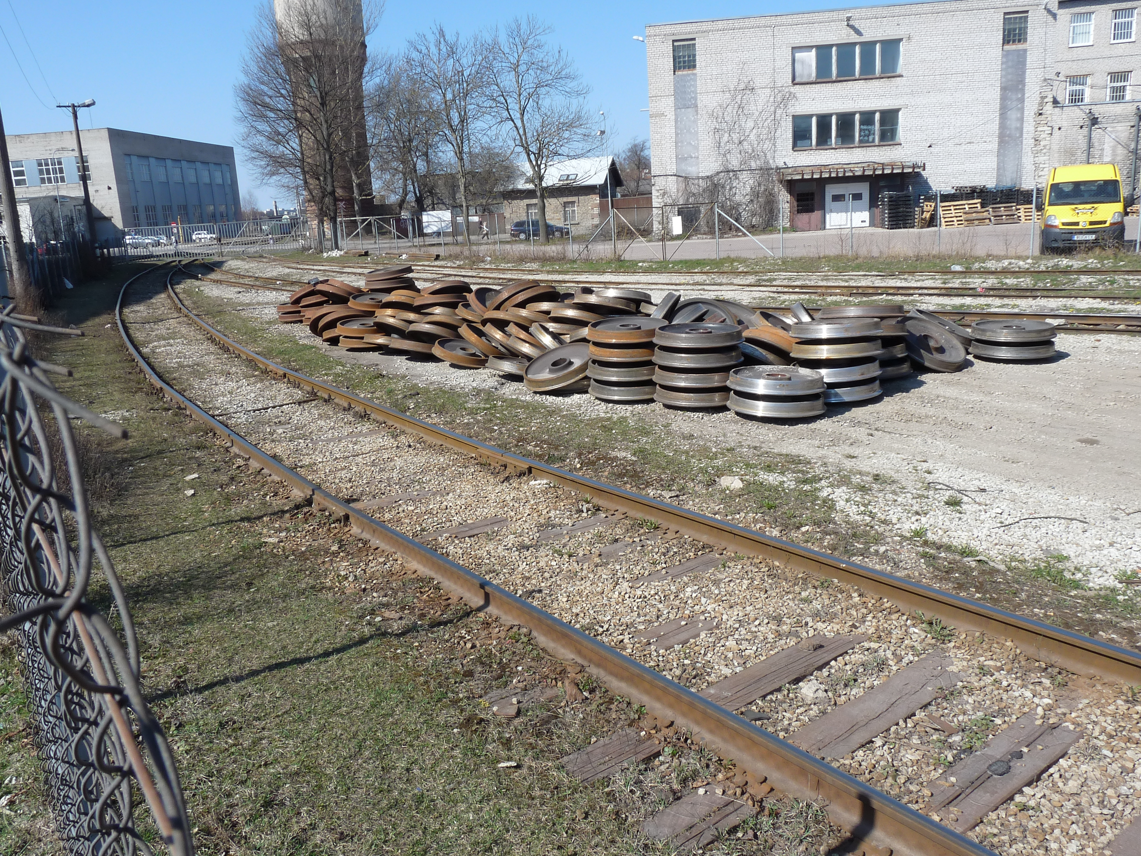 Railway wheels in Tallinn, Estonia